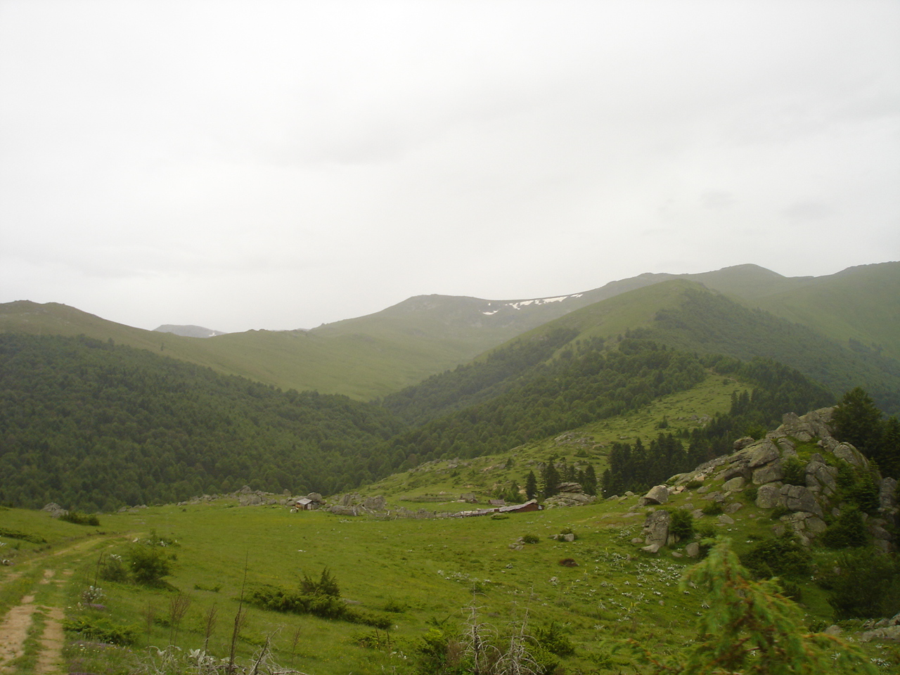 Salakova mountain on Mokra massif, Macedonia